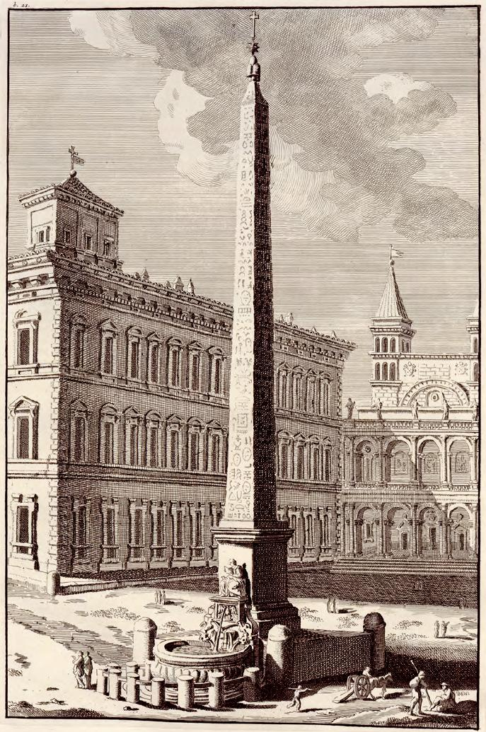 Engraving of the Lateran Obelisk by Bonaventura van Overbeek (published in Les restes de l'ancienne Rome, 1709